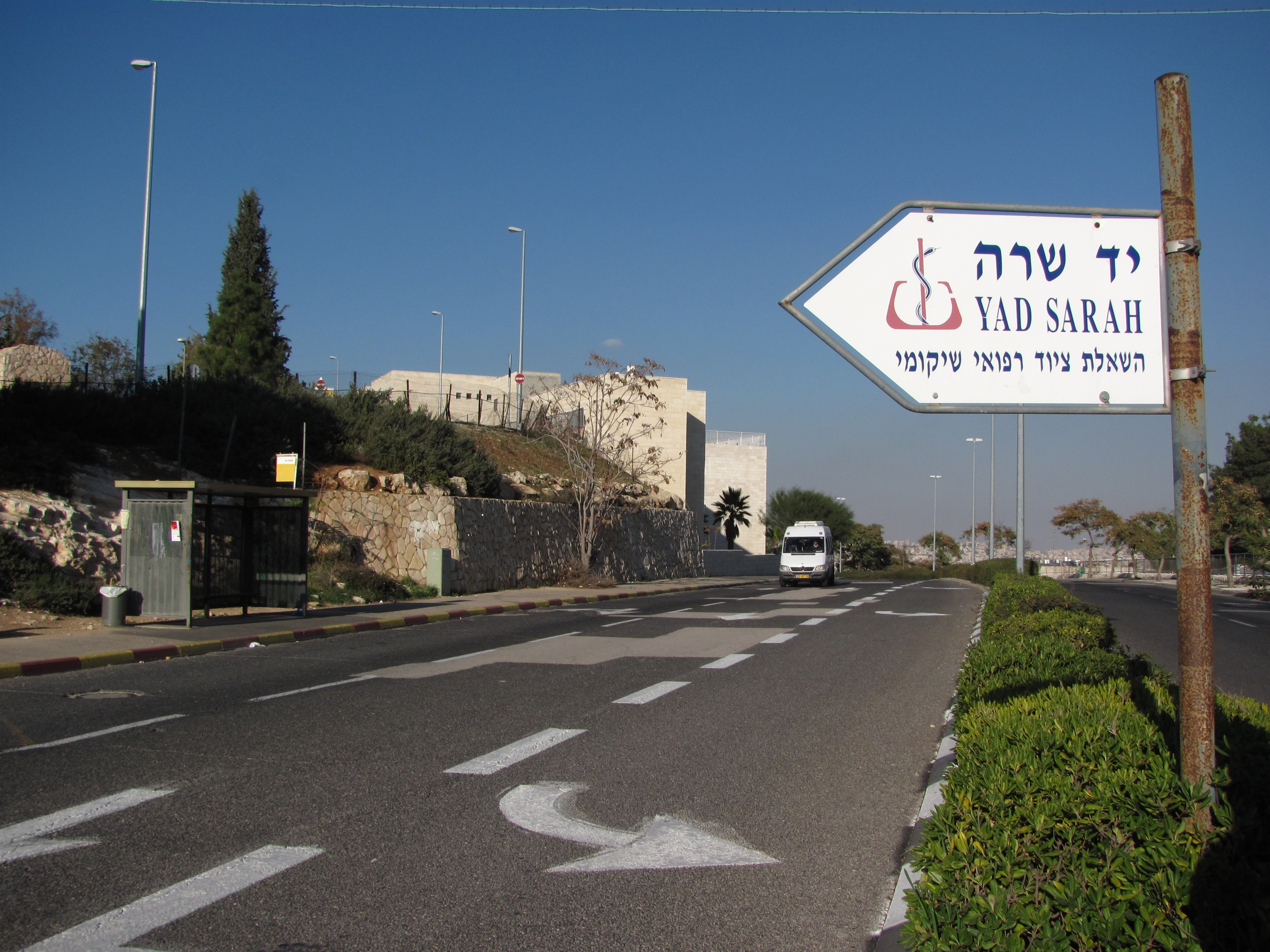 Directional signpost at entrance to Ramot Polin neighborhood of Jerusalem, pointing drivers to Yad Sarah branch in the neighborhood.